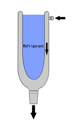 Dewar condenser,glass labware,liquid nitrogen, own work on photoshop